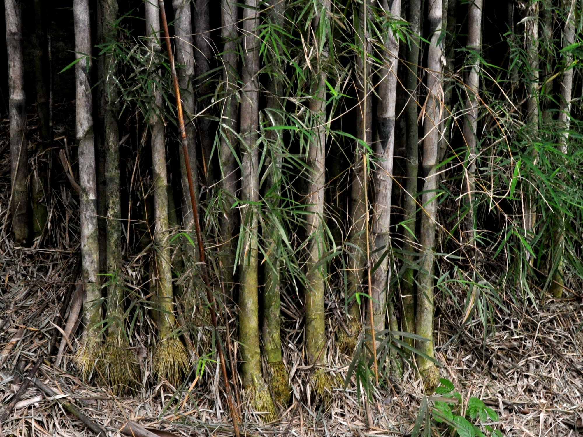 Thai bamboo, Thyrsostachys siamensis, lower culms. From Bogor, West Java, Indonesia.